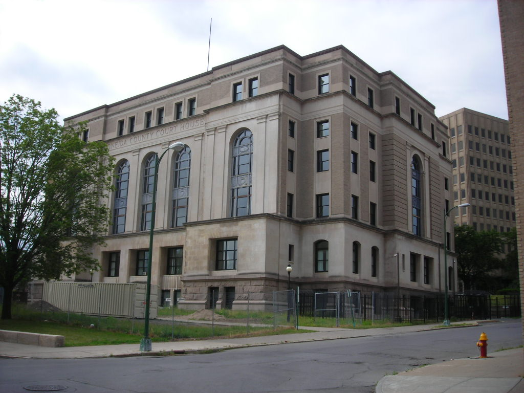 Oneida County Court House, at Utica, New York, United States.